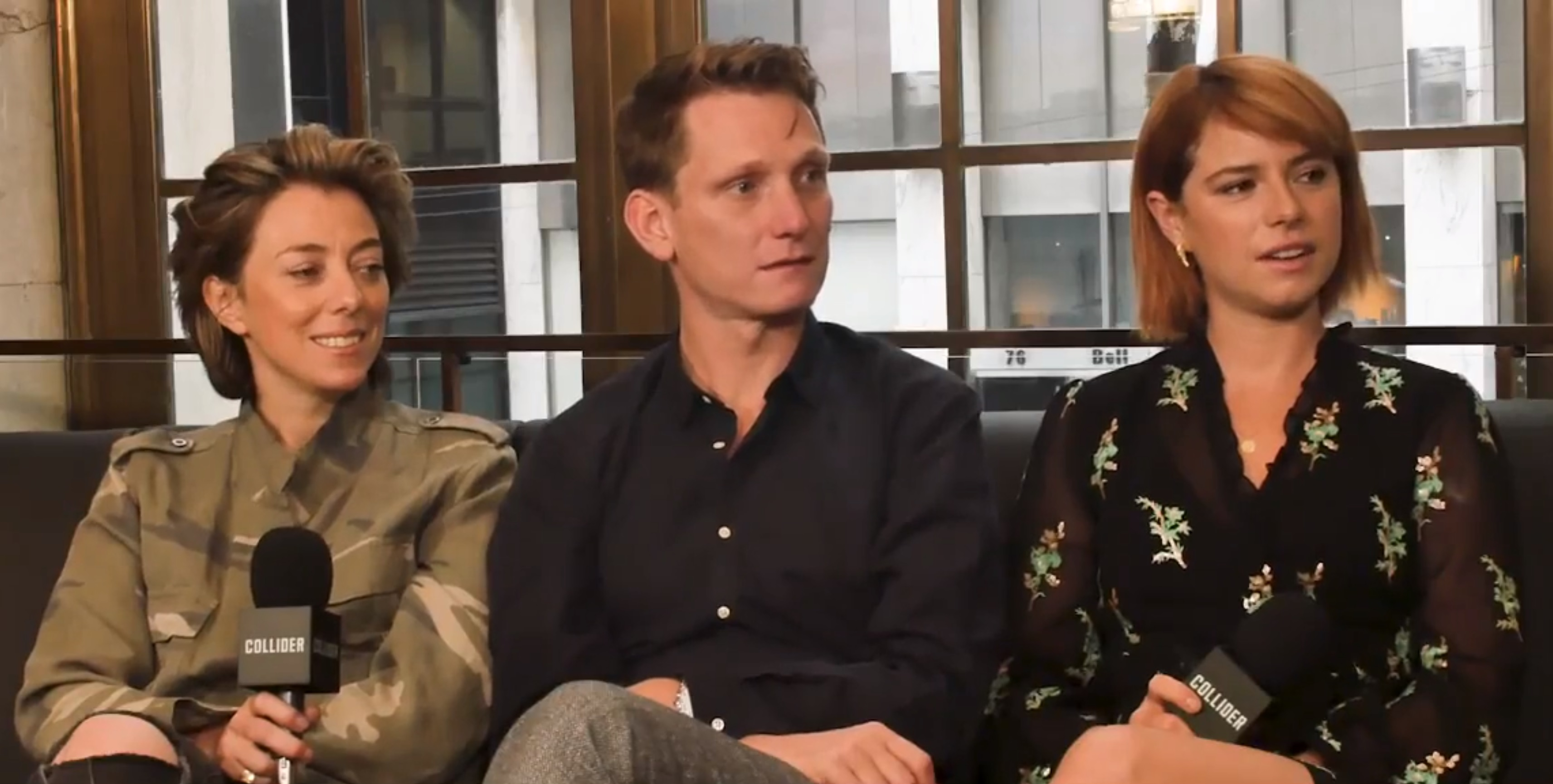 One of the many films to world premiere at this year’s Toronto International Film Festival was director Tom Harper’s Wild Rose. Led by a fantastic performance from Jessie Buckley, the film is about a would-be country singer that’s been recently released from prison, with two kids, living in Glasgow, that dreams of the bright lights of Nashville. The day after the world premiere, Jessie Buckley, Tom Harper, and screenwriter Nicole Taylor came into the Collider studio at TIFF to talk about the film.